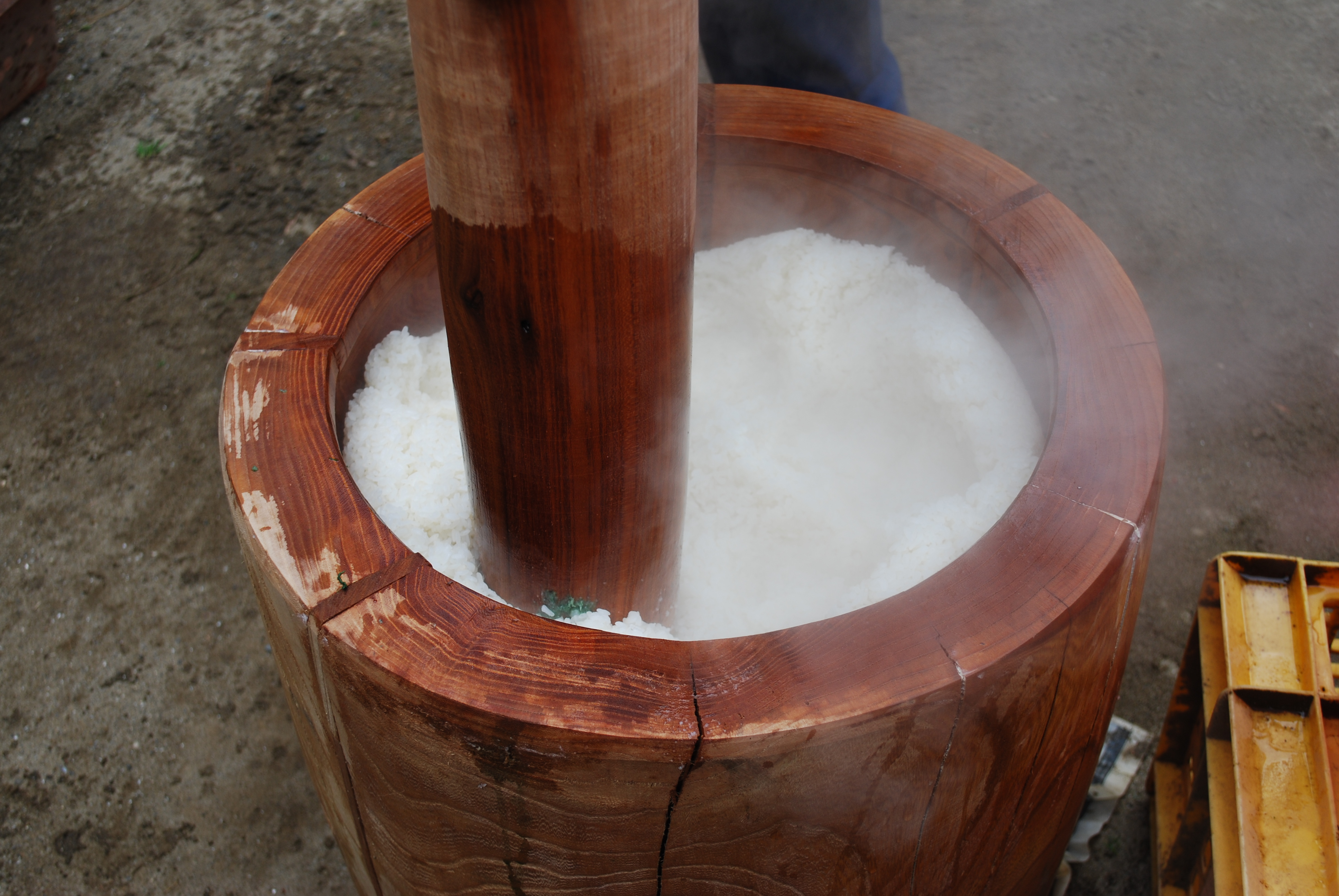 Rice-cake making,Thrust the glutinous rice which it was sultry with a mallet,Katori-city,Japan